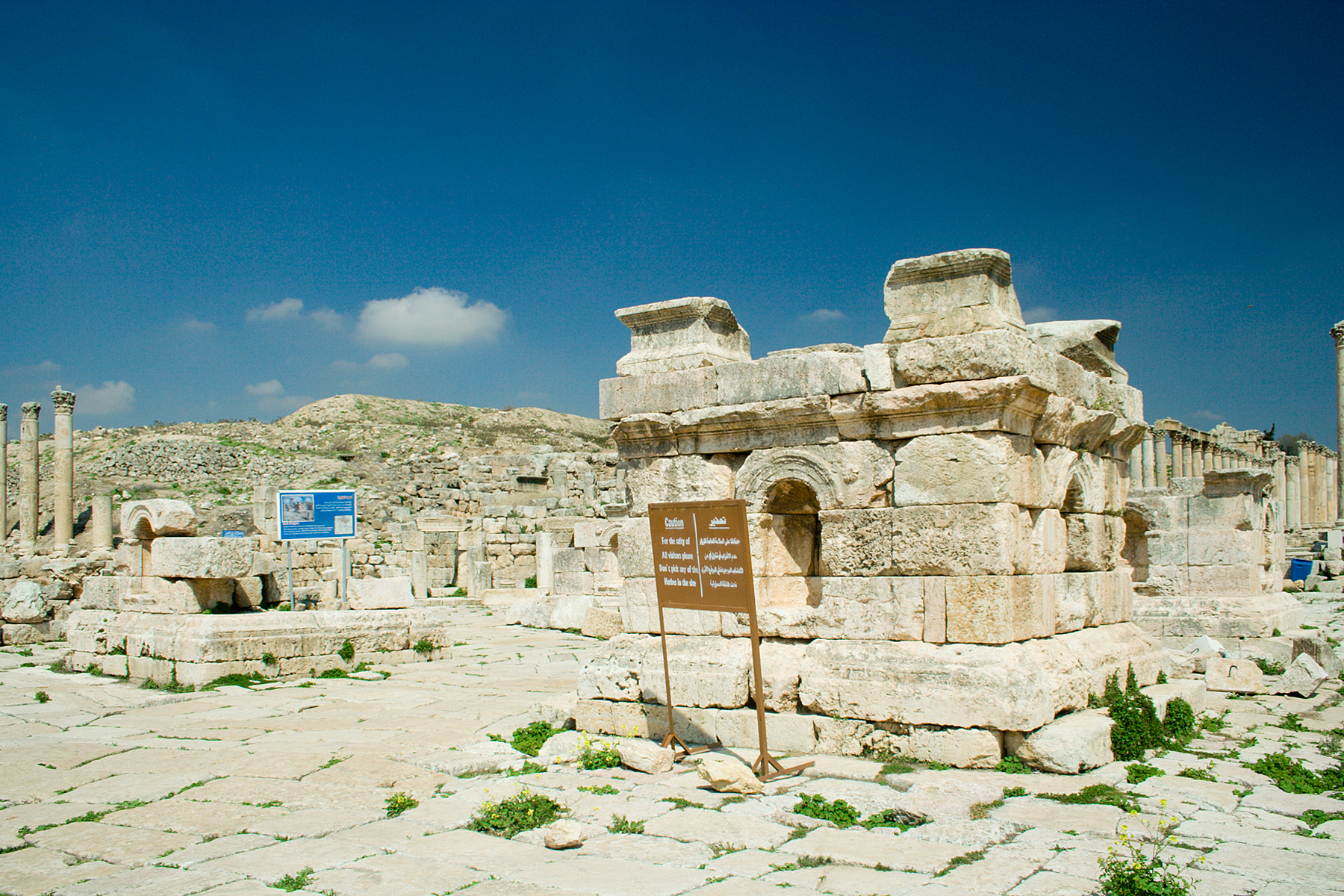 Dated to the Roman period at the end of the 2nd century AD, the South Tetrapylon is the intersection of Jerash's Cardo with the first cross street. Four niched pilasters formed the base of a former central monument.